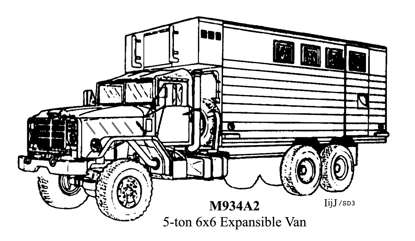 M934A2 "Truck, Van, Expansible, 5-ton, 6x6" drawing from a US Army Technical Manual, labeled and cropped for size